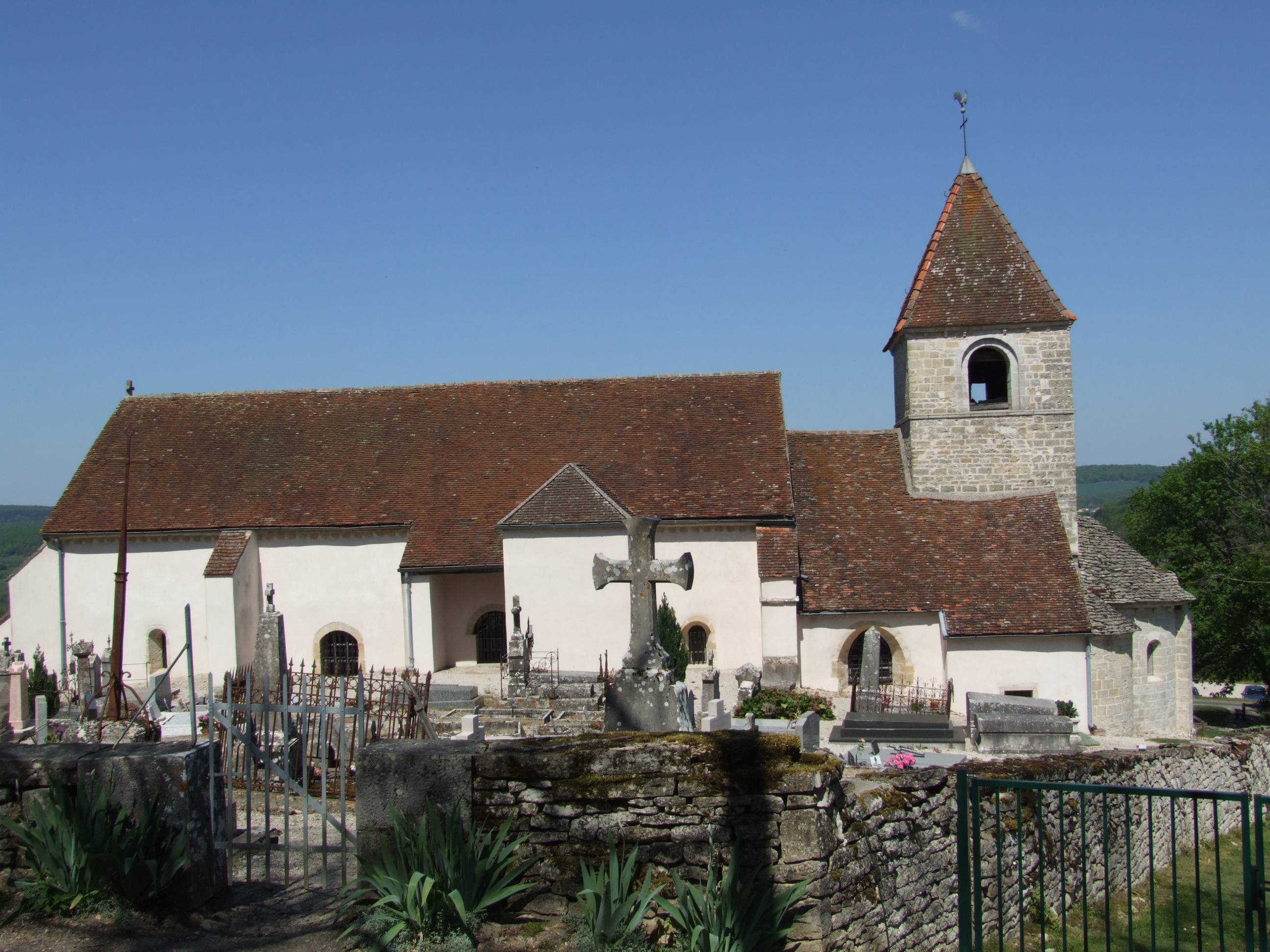 Roman church Saint-Saturnin, Reulle-Vergy, Burgundy, France. View from the south.